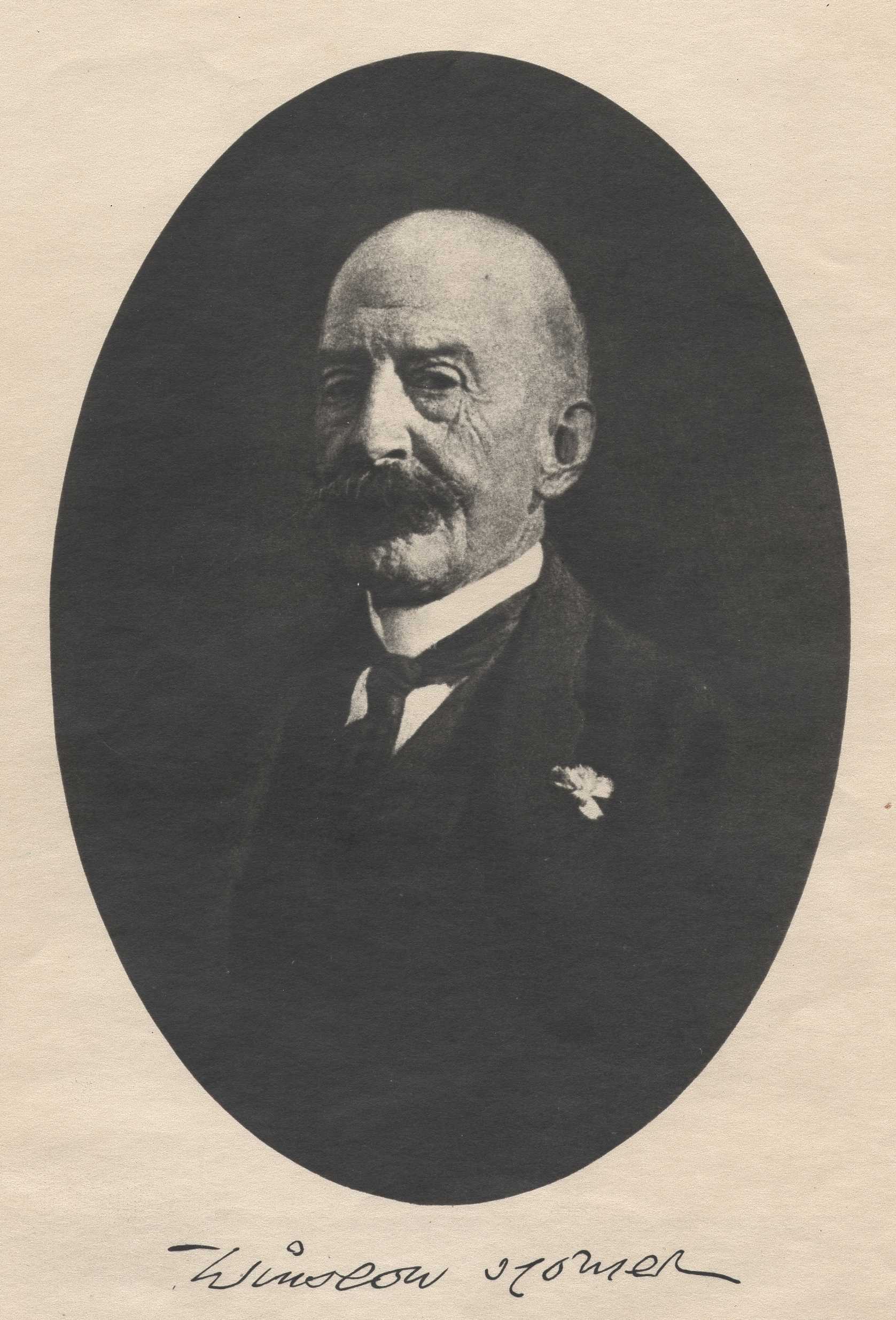 Winslow Homer, American painter